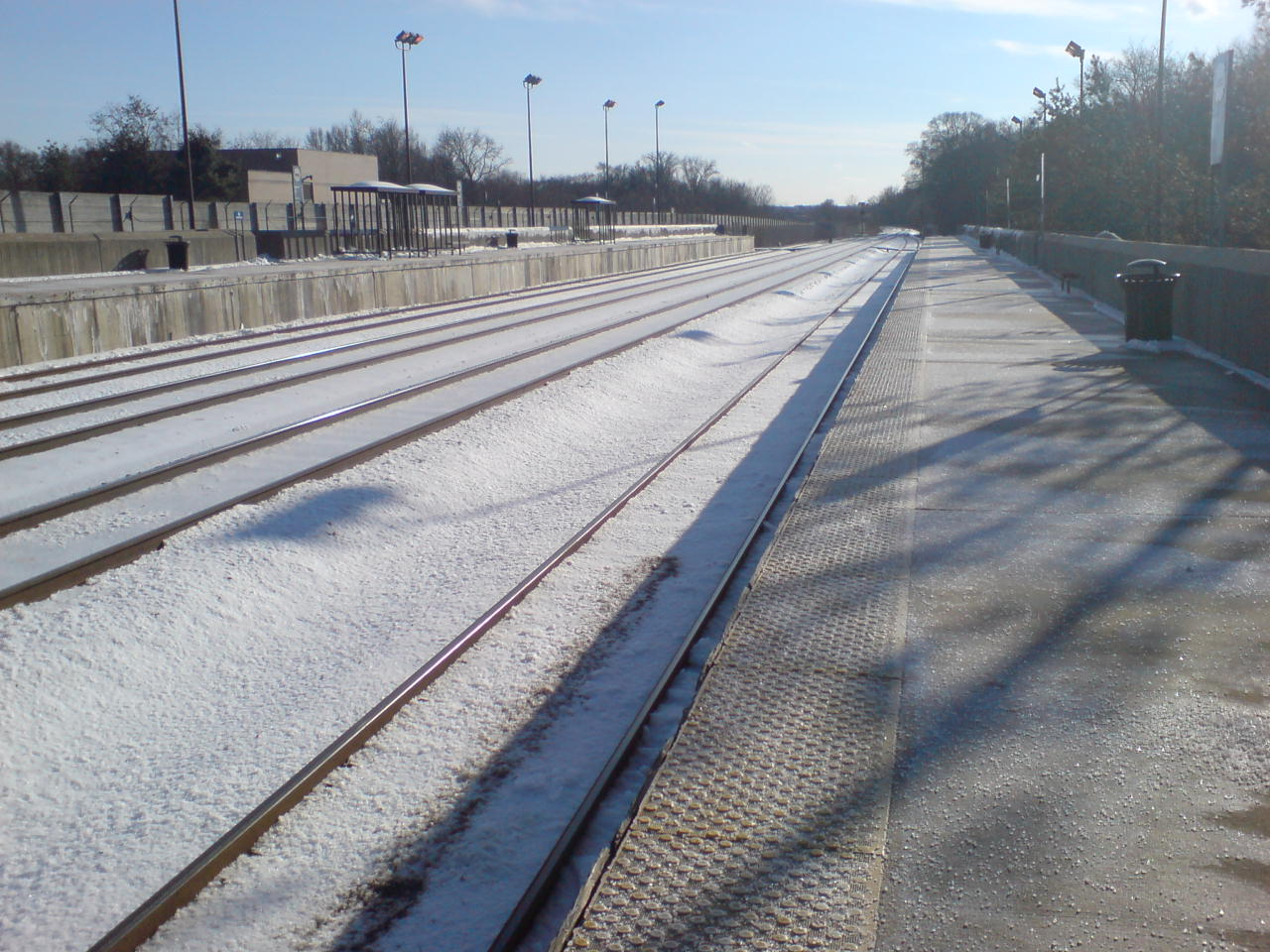 MARC platforms at Greenbelt station. Note that the center two tracks are for through trains.